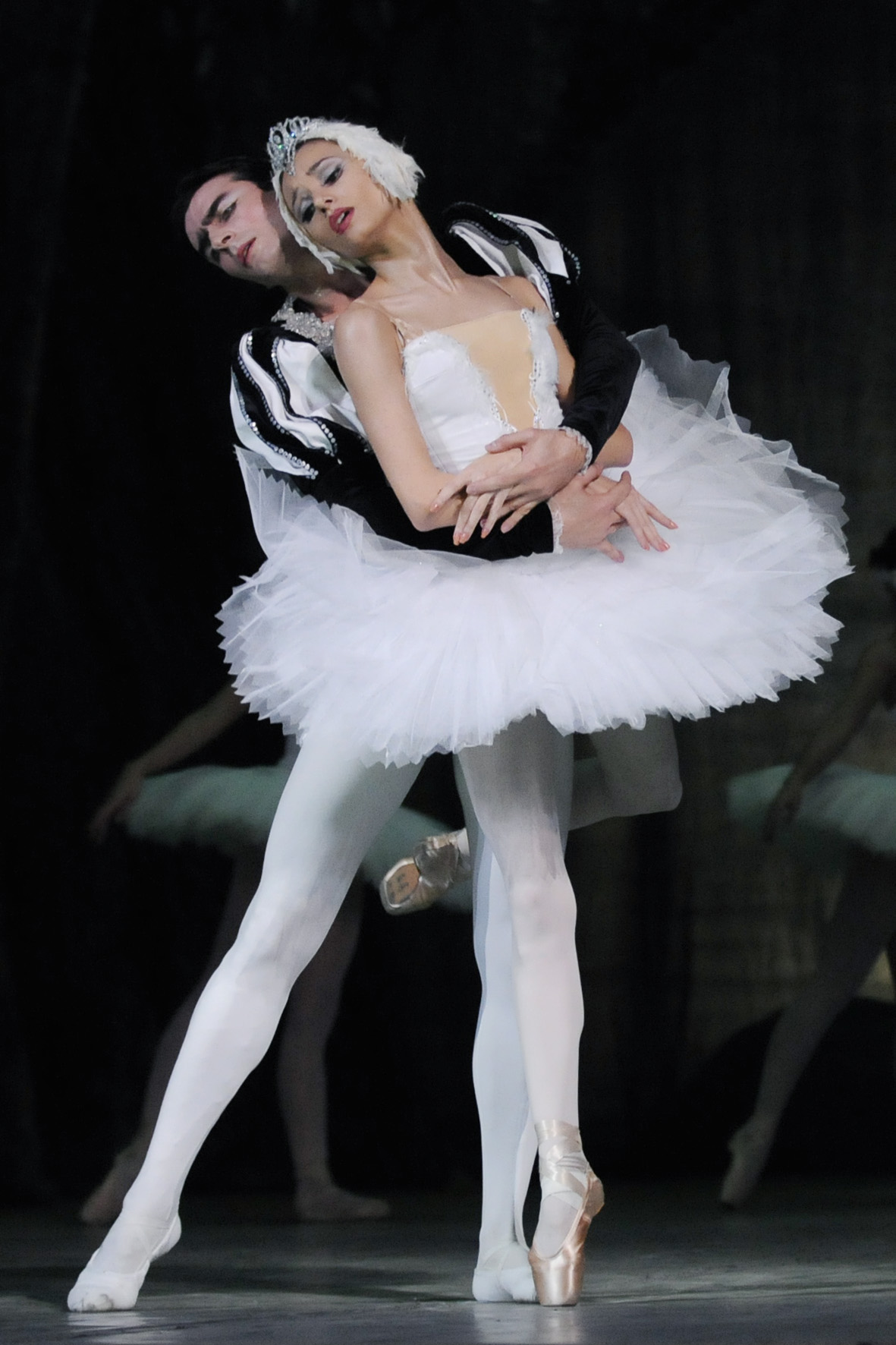 The photo was taken during a performance of Swan Lake